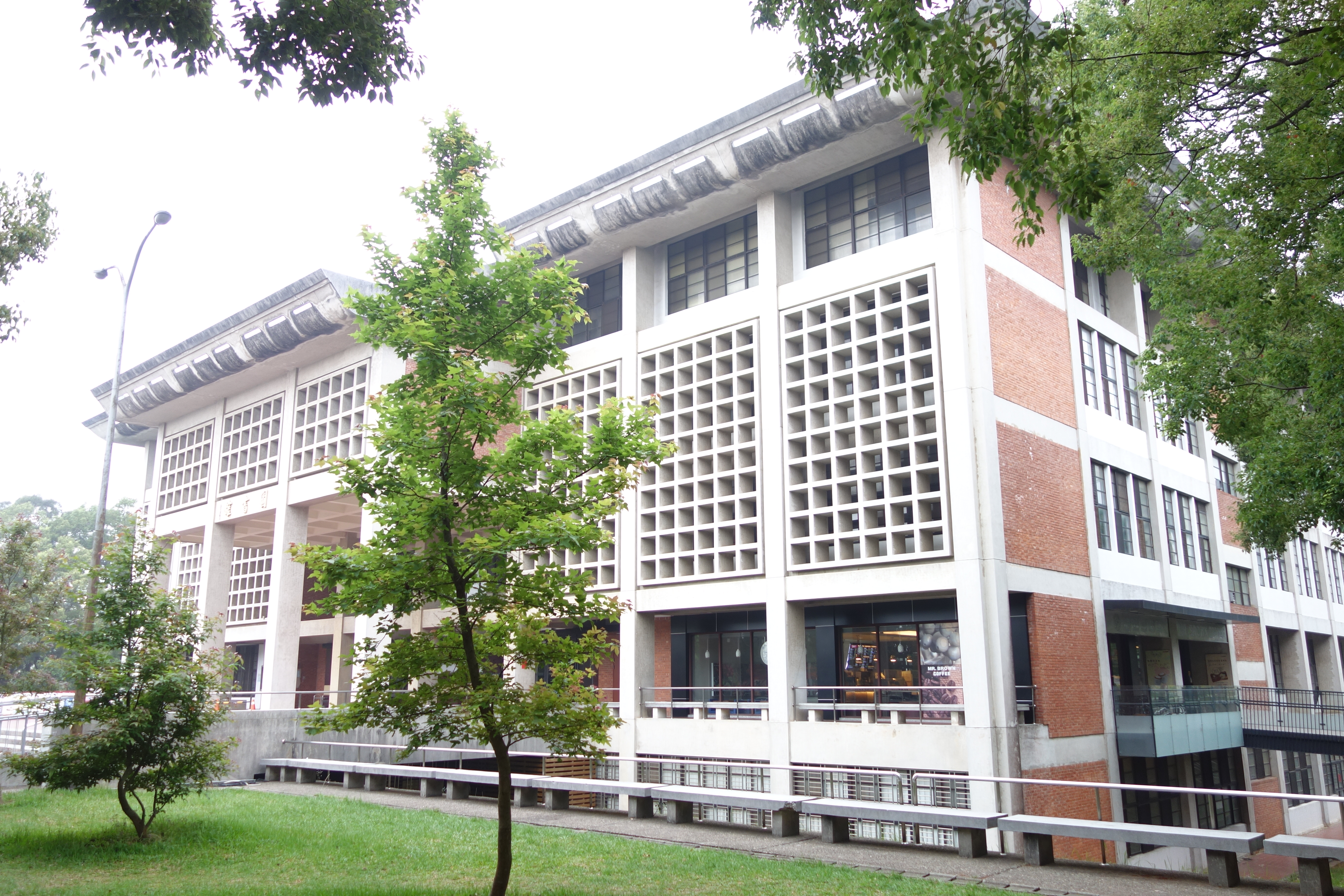 Tunghai University - Taichung, Taiwan.